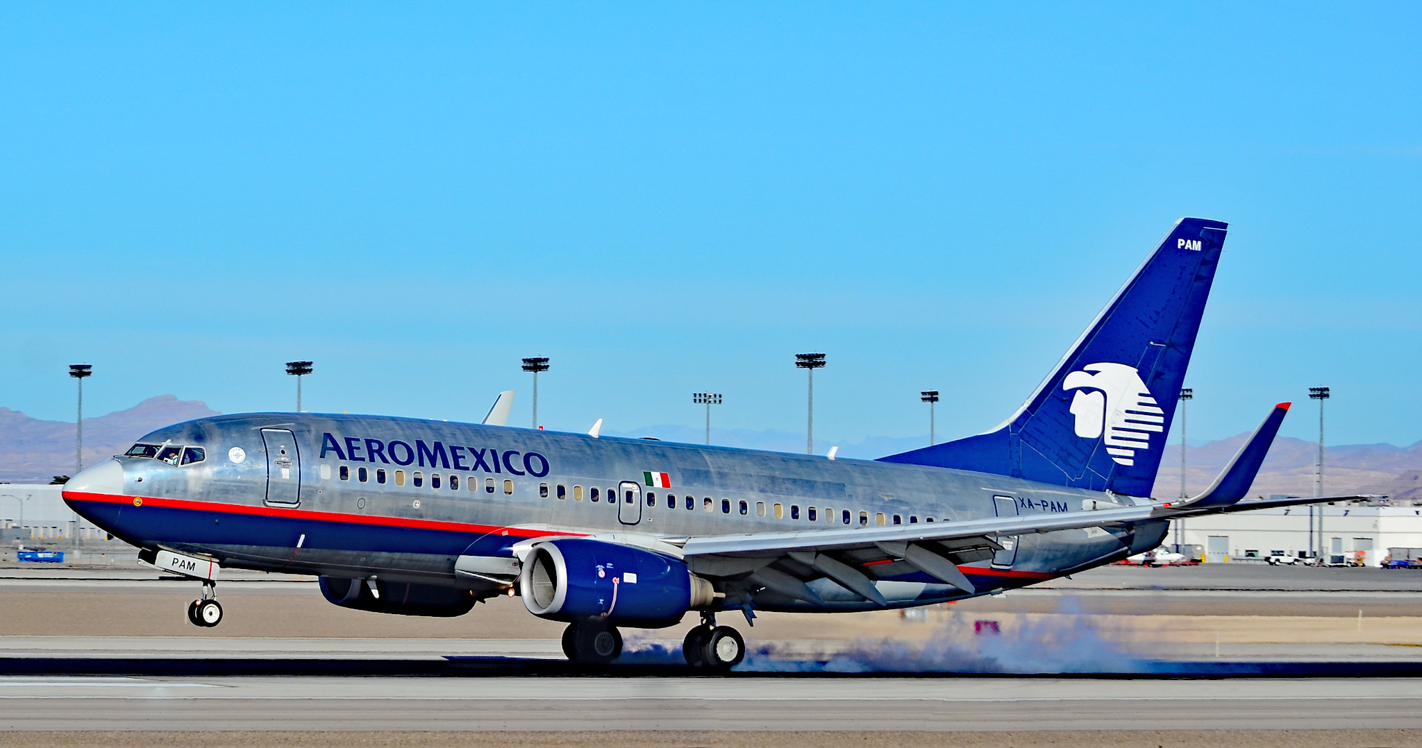 Las Vegas - McCarran International Airport (LAS / KLAS) USA - Nevada January 7, 2018 Photo: Tomás Del Coro